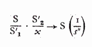 Formul of the metaphor concept by Jacques Lacan, also: S S 1 ′ ⋅ S 2 ′ x → S ( 1 S ″ ) {\displaystyle {\frac {S}{S'_{1 }\cdot {\frac {S'_{2 {x \rightarrow S\left({\frac {1}{S \right)} .